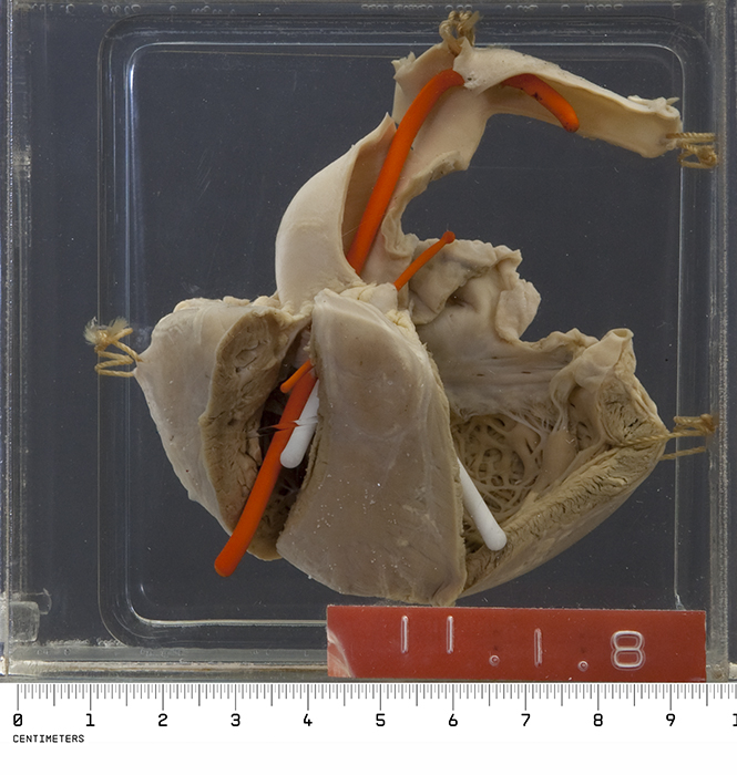 Photograph of Fallot's tetralogy heart specimen from the University of Cape Town Pathology Learning Centre